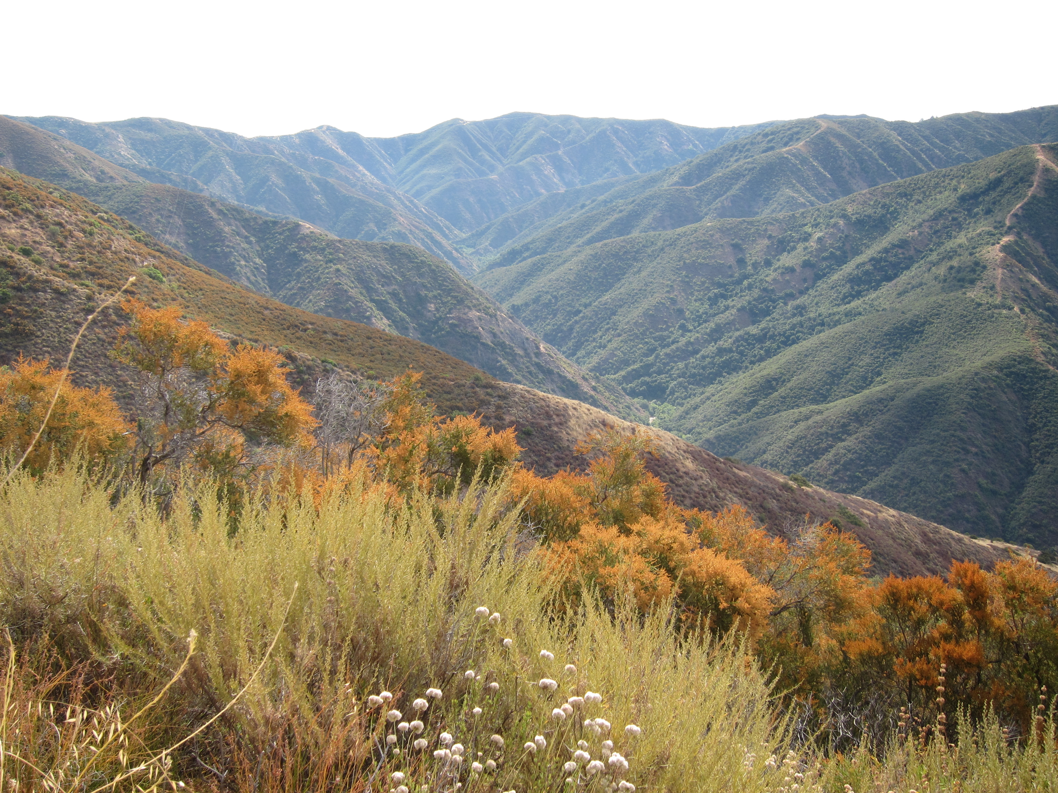 Silverado Canyon (Orange County), California Looking east from Silverado Motorway trail. California chaparral habitat.